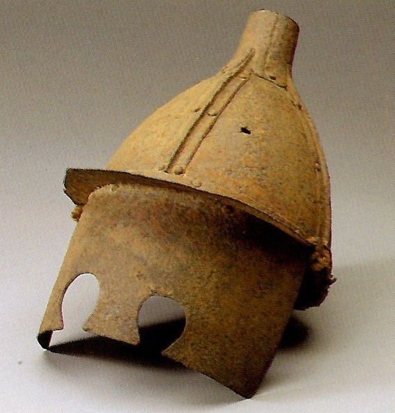 The helmet of a Mongolian army